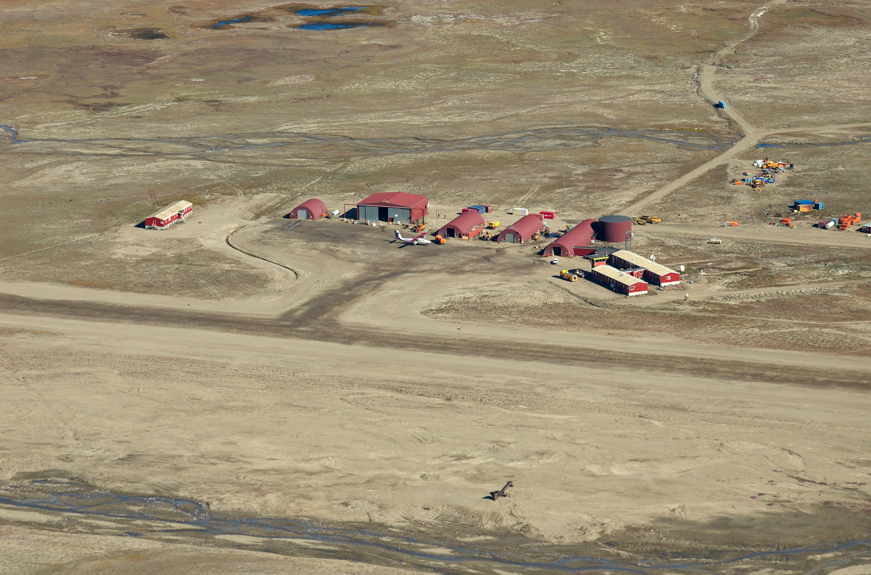 The airport Constable Pynt on East Greenland seen from Harris Fjeld (west). August 2007.